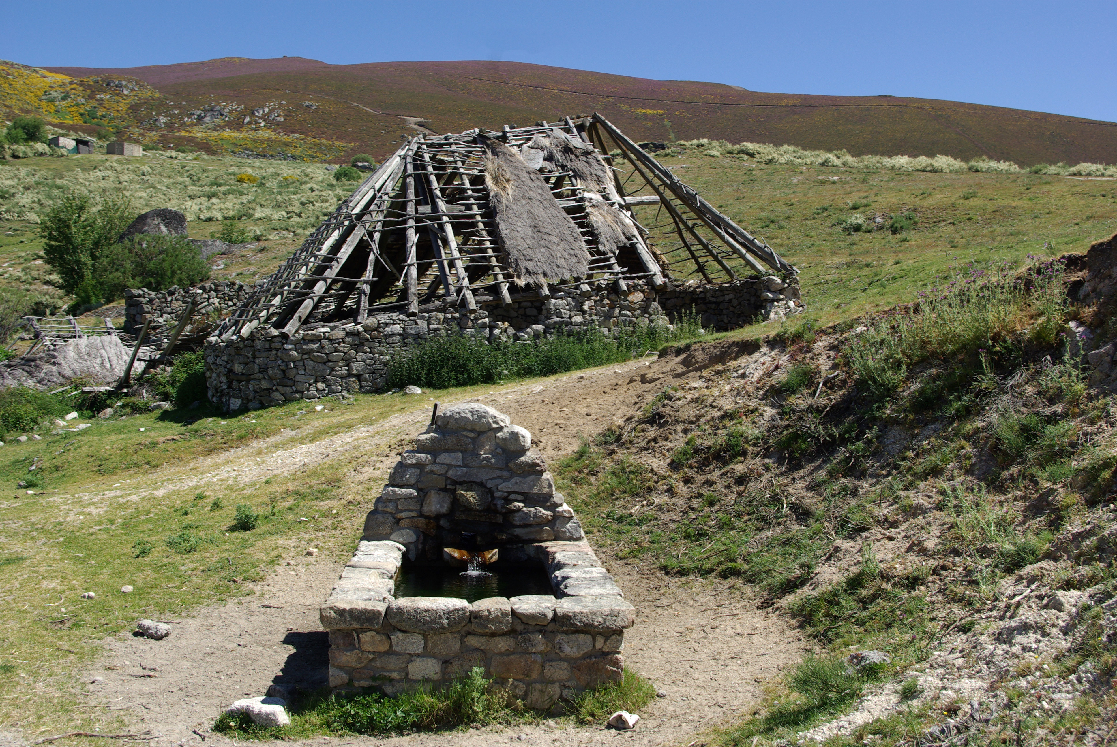 Old thatched roof house ruins and abrevoir in Campo del Agua, Villafranca del Bierzo (León, Spain)